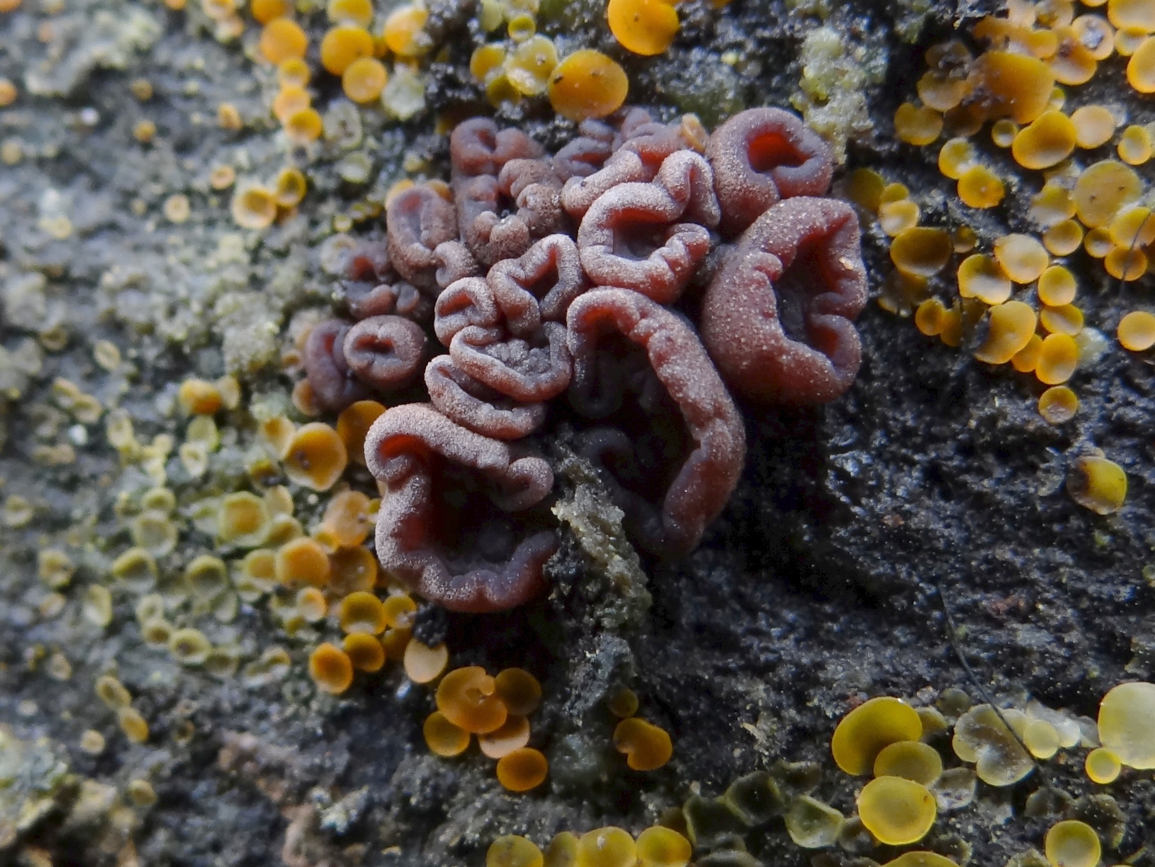 Ascocoryne cylichnium and Bisporella citrina (location: Poland, Gorce, Gorc)